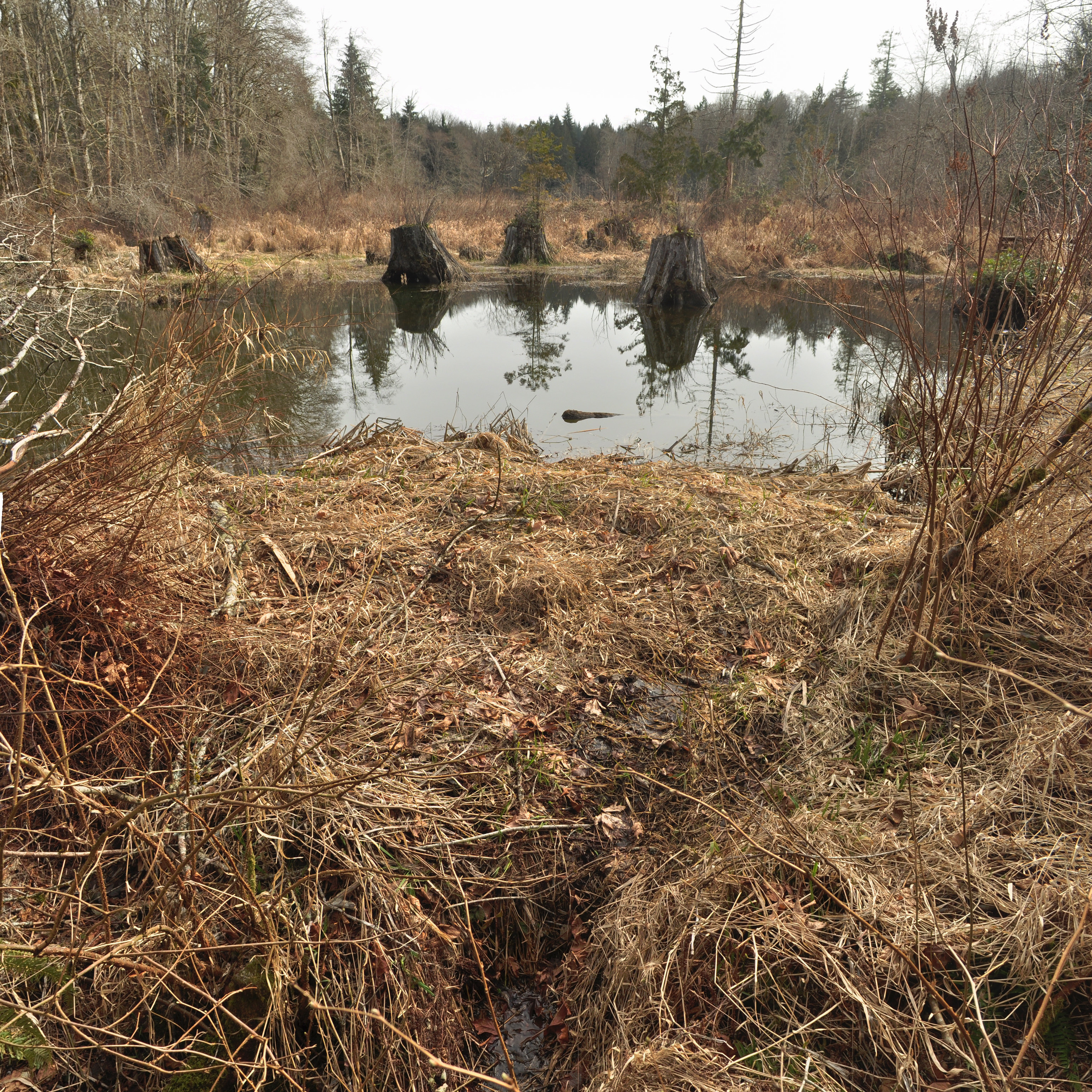 Vertical panorama: McLane Creek Nature Trail Pond - beaver dam and pond. Capitol State Forest, Thurston County, Washington, U.S. This image was created with Hugin.